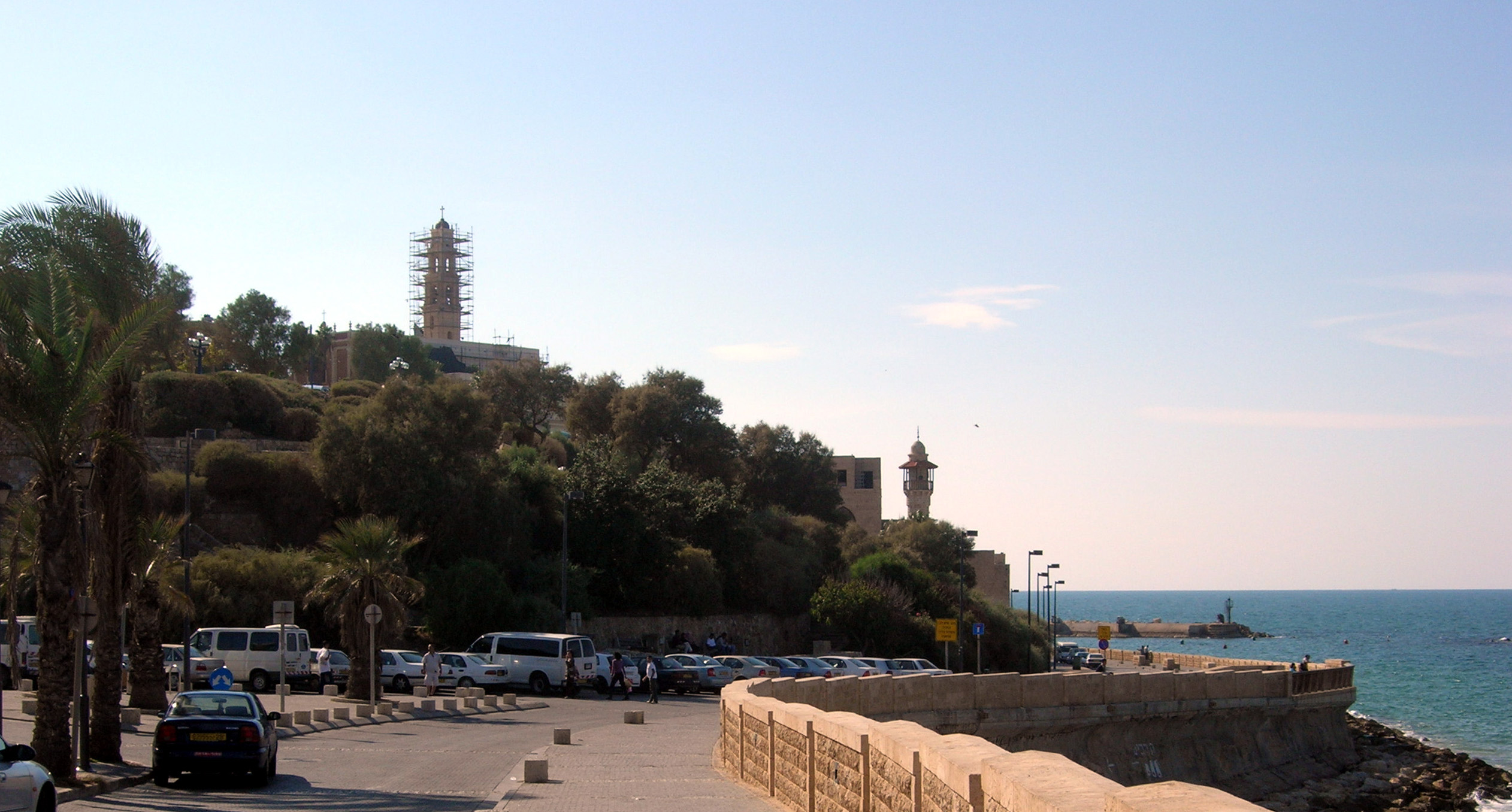 Description =Jaffa Source =Photo taken by Remi Jouan Date =Octobre 2006 Author =Remi Jouan